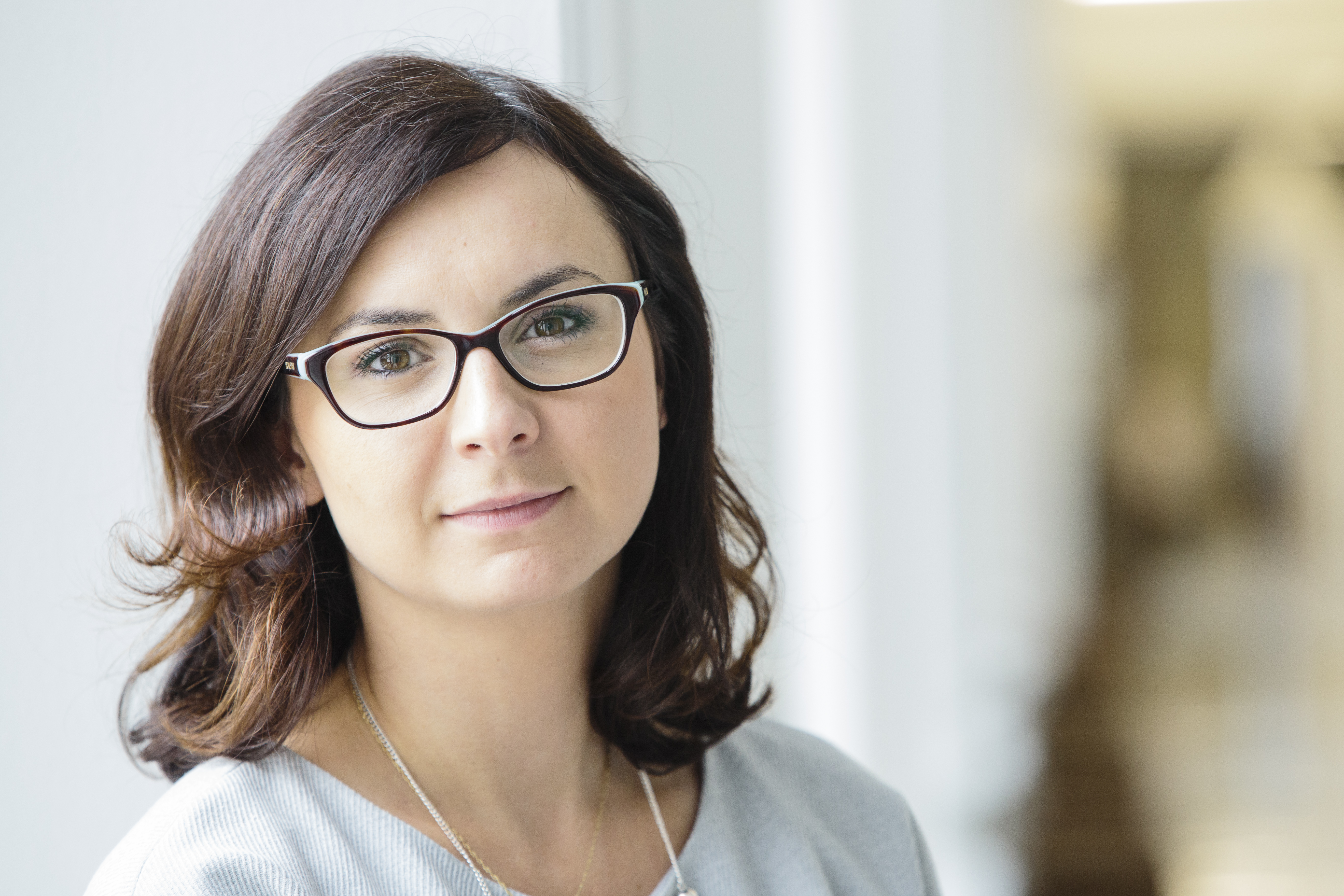 Kamila Gasiuk-Pihowicz - Polish MP